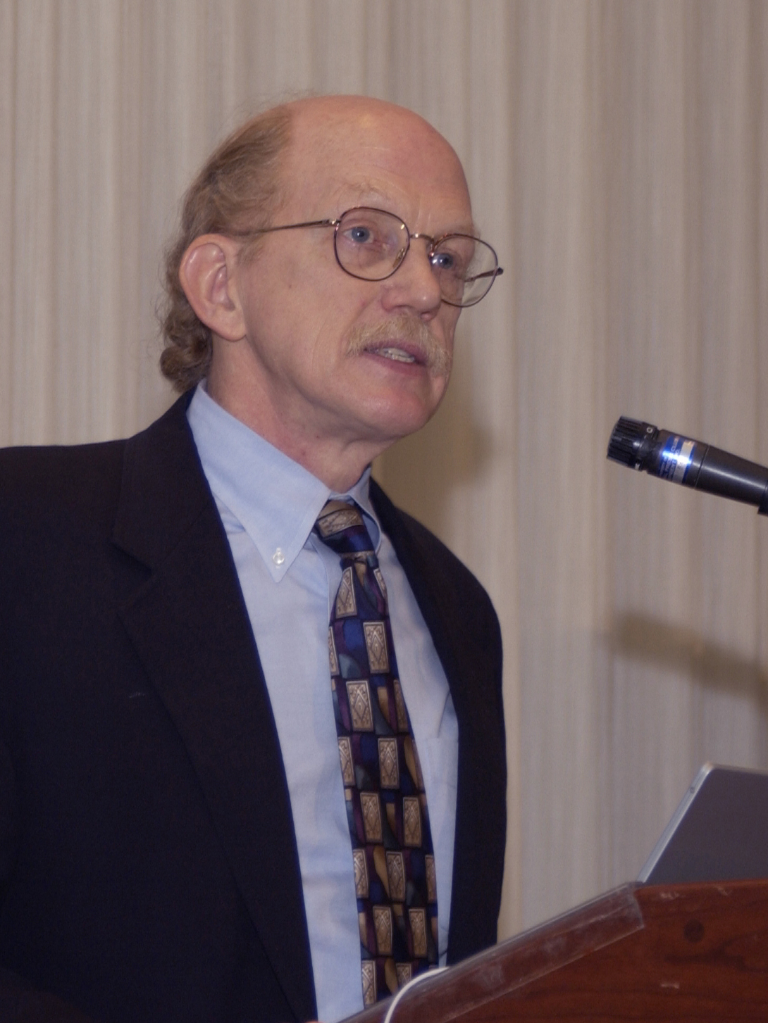 Dr. Robert Waterston, director of the Genome Sequencing Center at Washington University School of Medicine in St. Louis, speaks at a press conference announcing the analysis of the mouse genome.